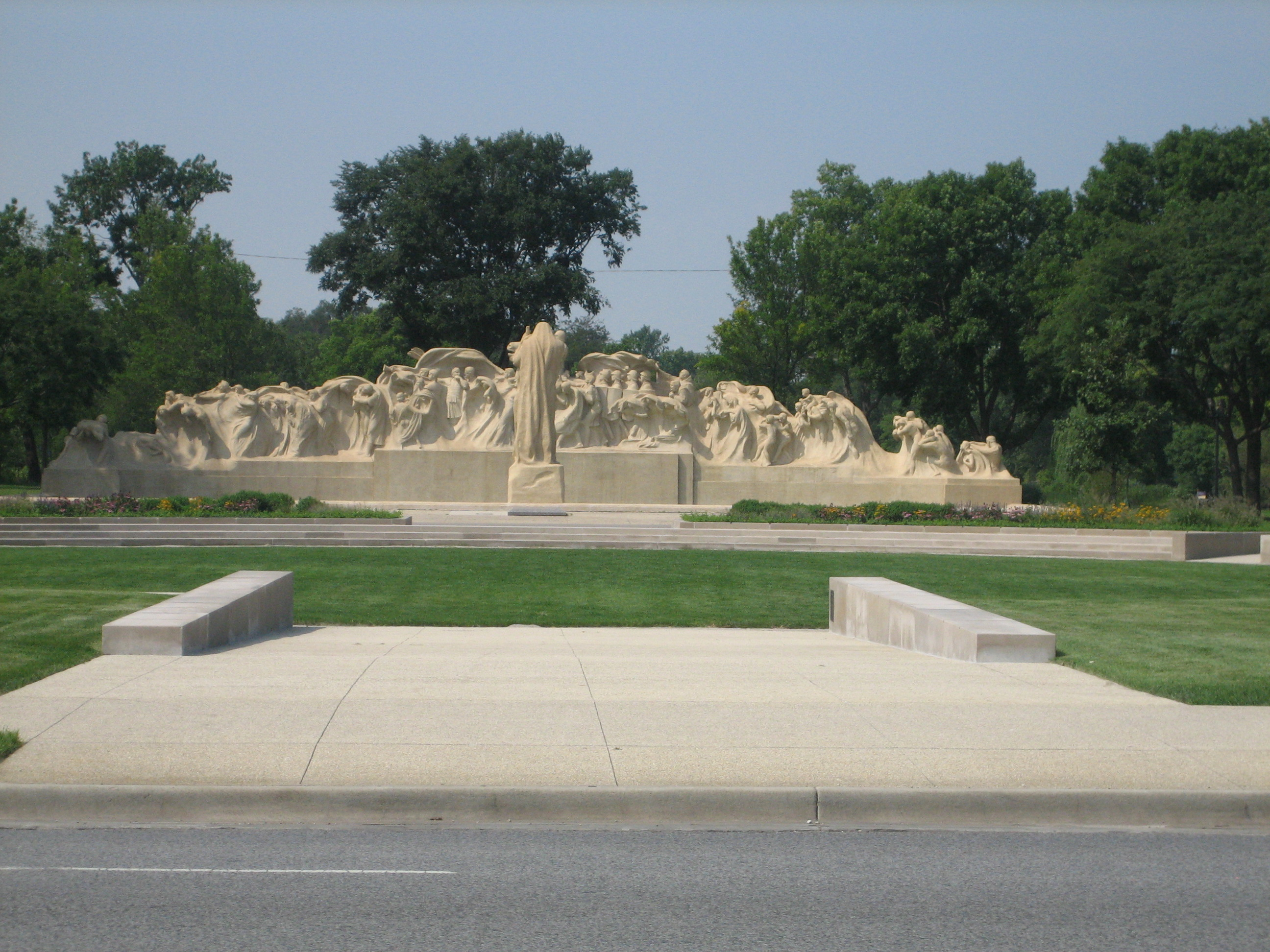 Fountain of Time sculpture in Washington Park in Chicago Fountain of Time was authored by Lorado Taft, who died October 30, 1936. Fountain of Time itself, is, therefore, as follows